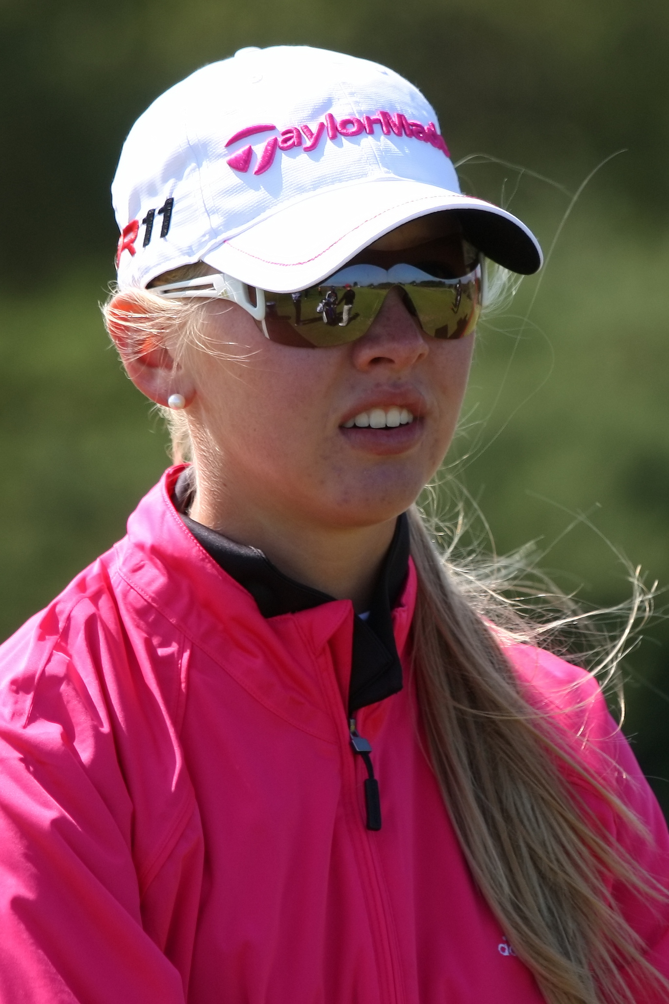 CARNOUSTIE, SCOTLAND - JULY 27: Jessica Korda of Czech Republic on the 13th tee during the final practice round of the 2011 Ricoh Women's British Open at Carnoustie on July 27, 2011 in Carnoustie, Scotland. (Photo by Wojciech Migda)